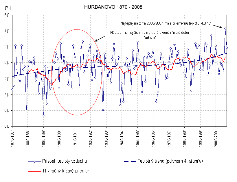 graf